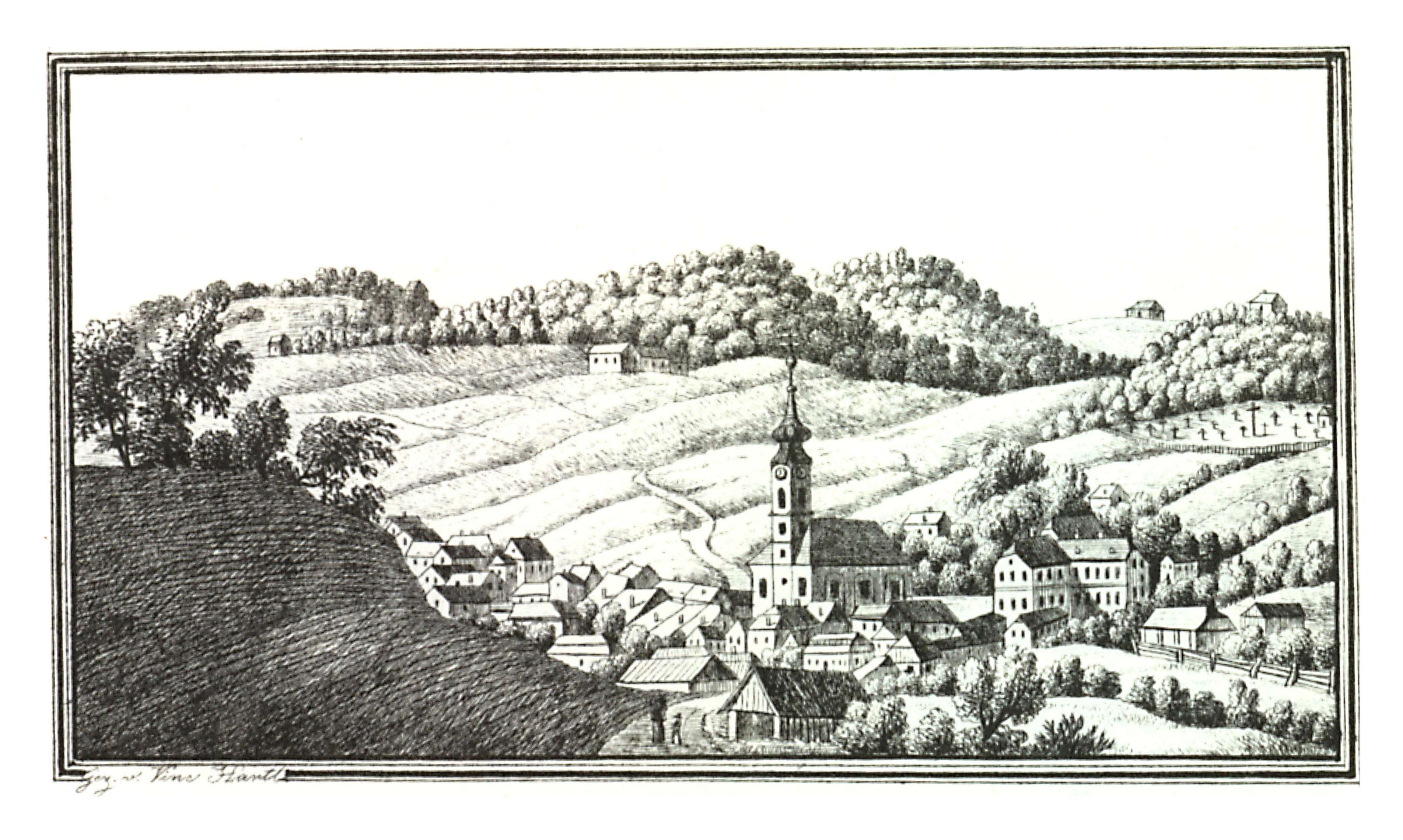 J. F. Kaiser - lithographirte Ansichten der Steyermärkischen Städte, Märkte und Schlösser Graz, 1825 Joseph Franz Kaiser (1786–1859) Alternative names J. F. KaiserDescriptionAustrian printer and editorDate of birth/death 11 March 1786 19 September 1859Location of birth/death Graz (Styria) GrazAuthority control : Q1499963 VIAF: 30629353 ISNI: 0000 0000 3083 0153 LCCN: n87141671 GND: 129880159 NLP: A24960305 WorldCat creator QS:P170,Q1499963 Scanprojekt Community Projektbudget 2012 This scan or this PDF-file was created within the GLAM-project Bookscanning, supported by Wikimedia Germany and Wikimedia Austria as a part of the community-project to capture books, documents and pictures which are not eligible to copyright or for which the copyright has expired. This document describes or depicts an object which is located in Austria today. Send requests for uncompressed scans to Hubertl. This work is in the public domain in its country of origin and other countries and areas where the copyright term is the author's life plus 100 years or less. You must also include a United States public domain tag to indicate why this work is in the public domain in the United States. This file has been identified as being free of known restrictions under copyright law, including all related and neighboring rights.